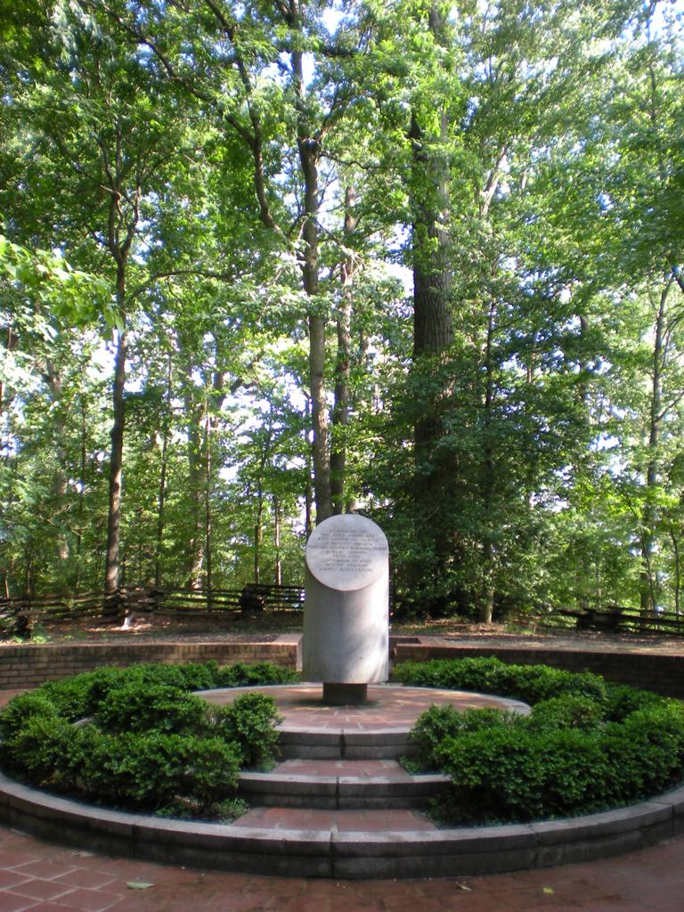 The slave memorial at the burial grounds at Mt. Vernon, installed 1983 (soure: Mount Vernon Ladies Association